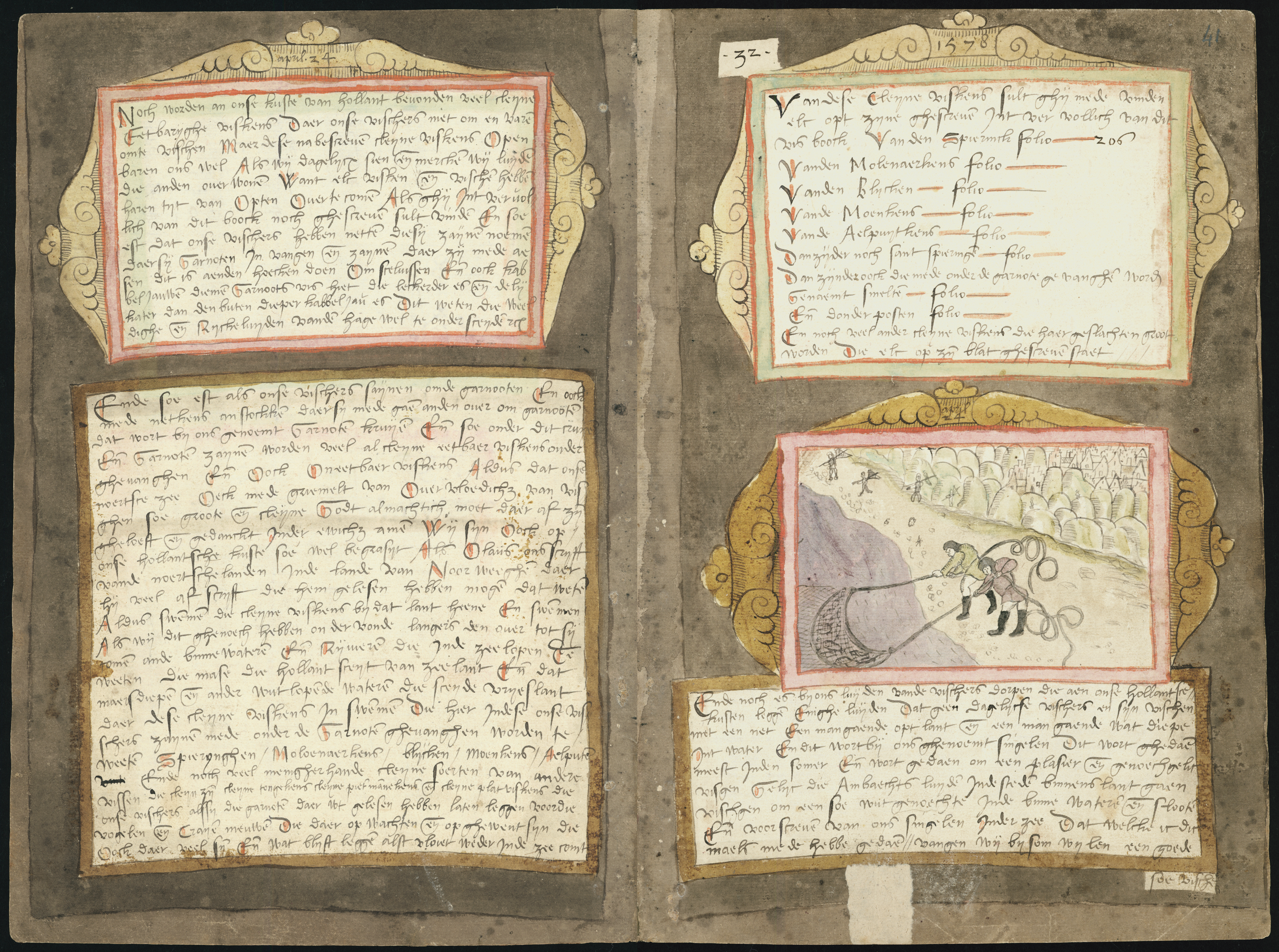 Lefthand side folio 040v and righthand side folio 041r from the Visboeck by Adriaen Coenen